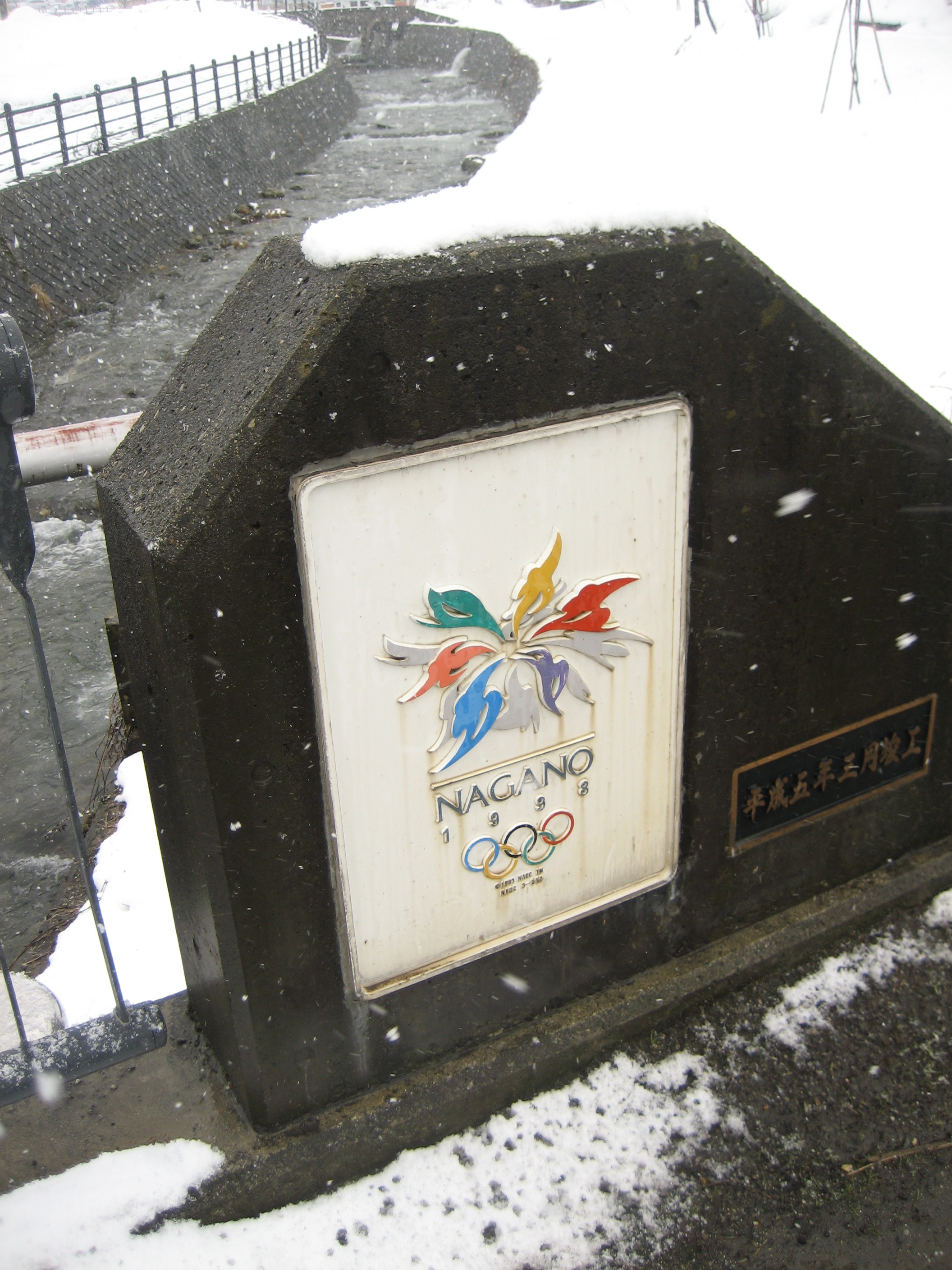 1998 Nagano Olympics bridge